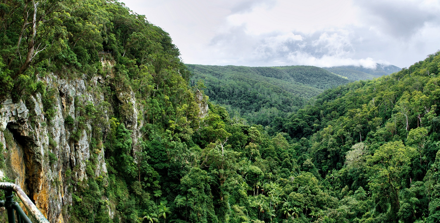 View from the lookout at Purling Brook Falls, Gold Coast hinterlands, Queensland, Australia. Springbrook National Park Australia (stitch of two photos)